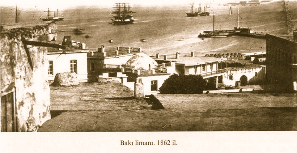 View of Baku bay from Ichery Sheher, 1862